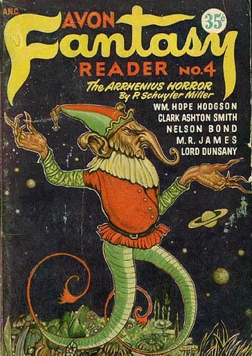 Cover of the fantasy fiction magazine Avon Fantasy Reader no. 4 (1947) featuring "The Arrhenius Horror" by P. Schuyler Miller.